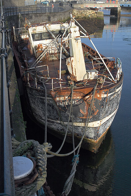 The "Solway Harvester" A tragic scene. Seven fishermen from south-west Scotland drowned when their trawler, the Solway Harvester, sank in heavy seas off the Isle of Man on Tuesday, 11 January 2000. The boat was raised from the sea bed on 26 June 2000, and is now moored/beached in Douglas Harbour.